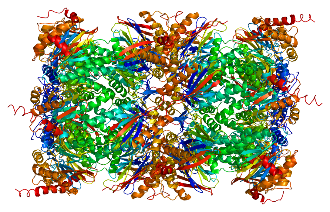 Structure of the PSMA1 protein. Based on PyMOL rendering of PDB 1iru.